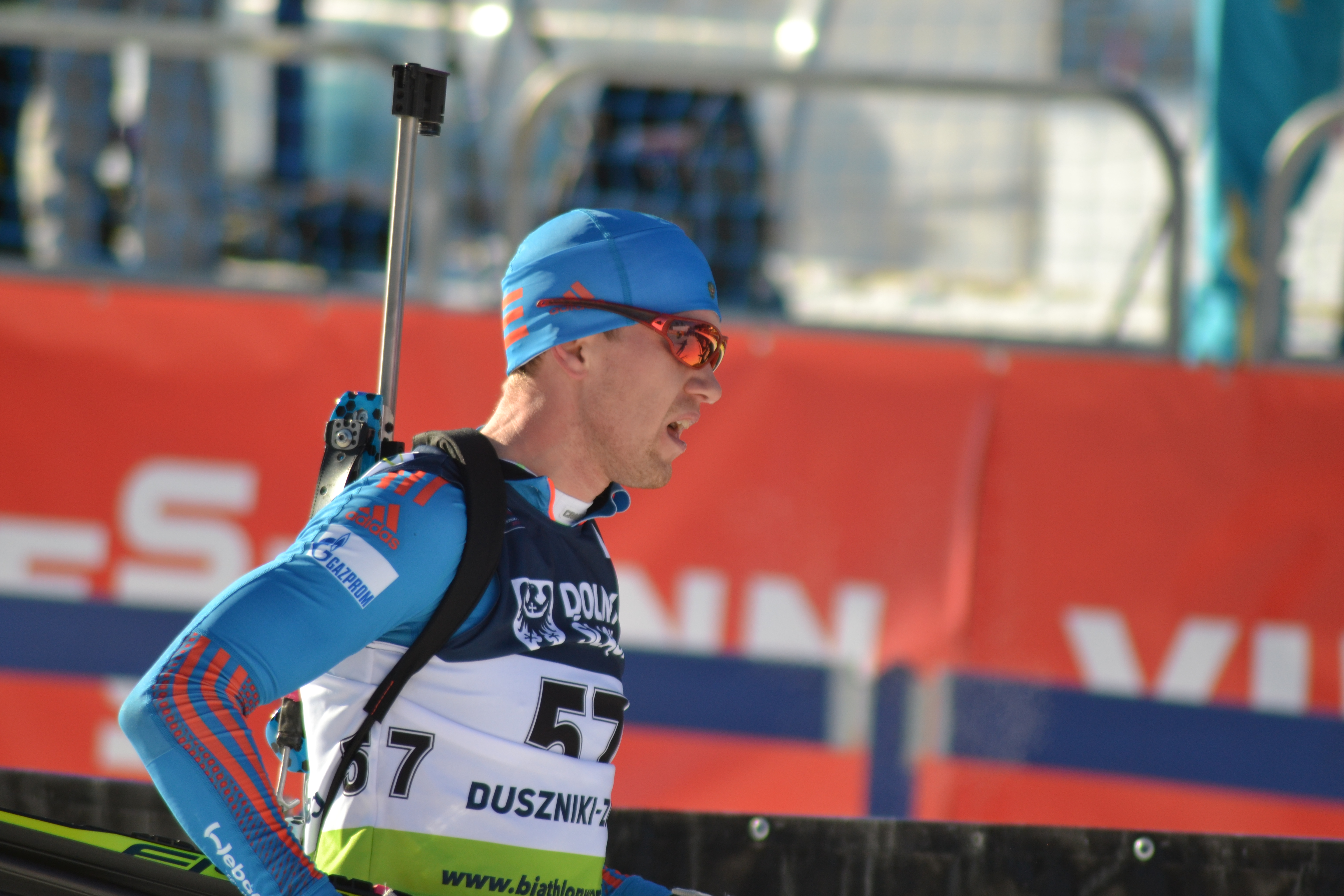 Open European Championships Biathlon 2017, Sprint Men's race, held on January 27th.